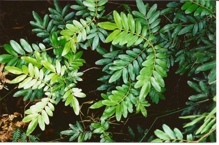 Pinkwood (Eucryphia moorei) at the summit of Mount Dromedary, (Gulaga Mountain), near Narooma, NSW, Australia